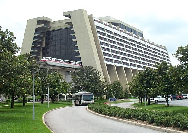 Disney's Contemporary Resort.